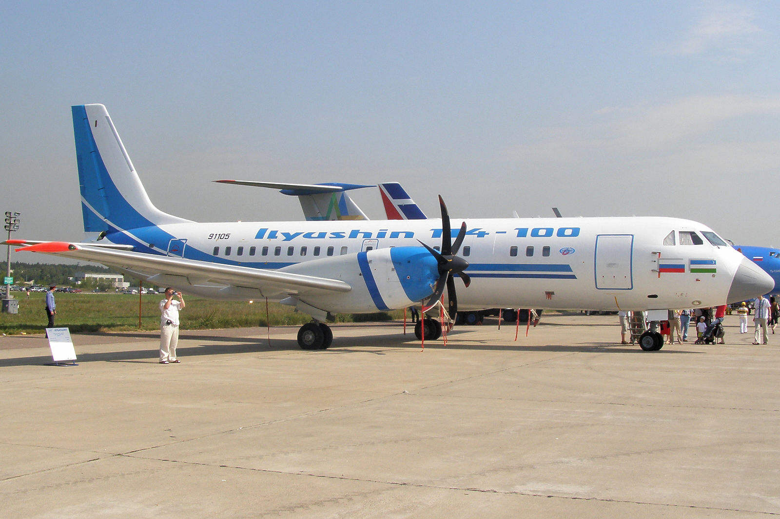 Il-114-100 on display on MAKS-2007